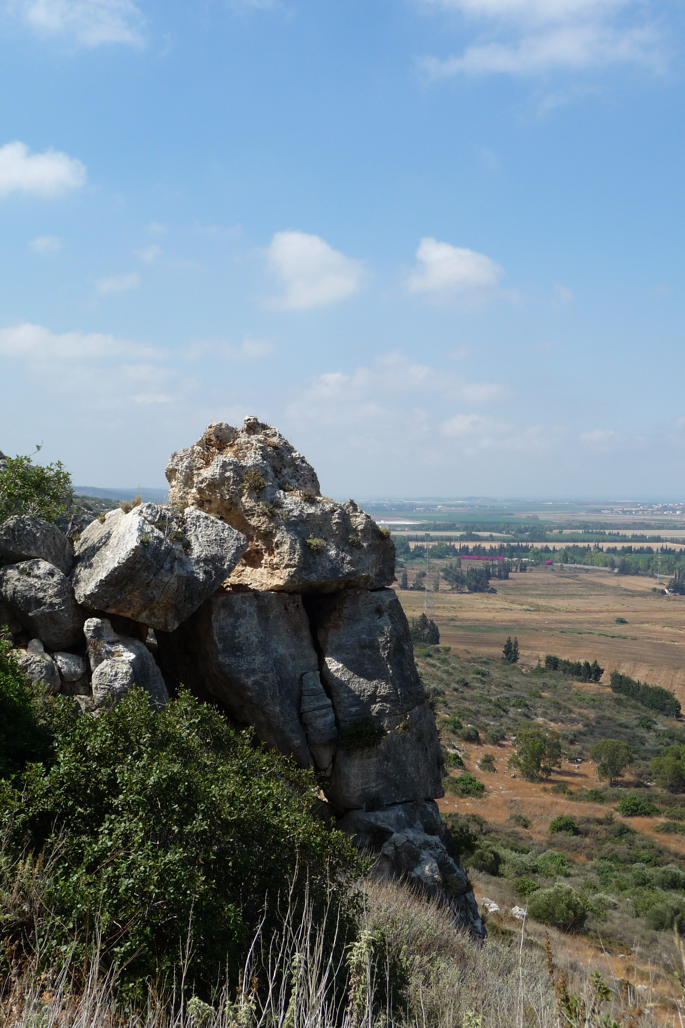 Carmel Park